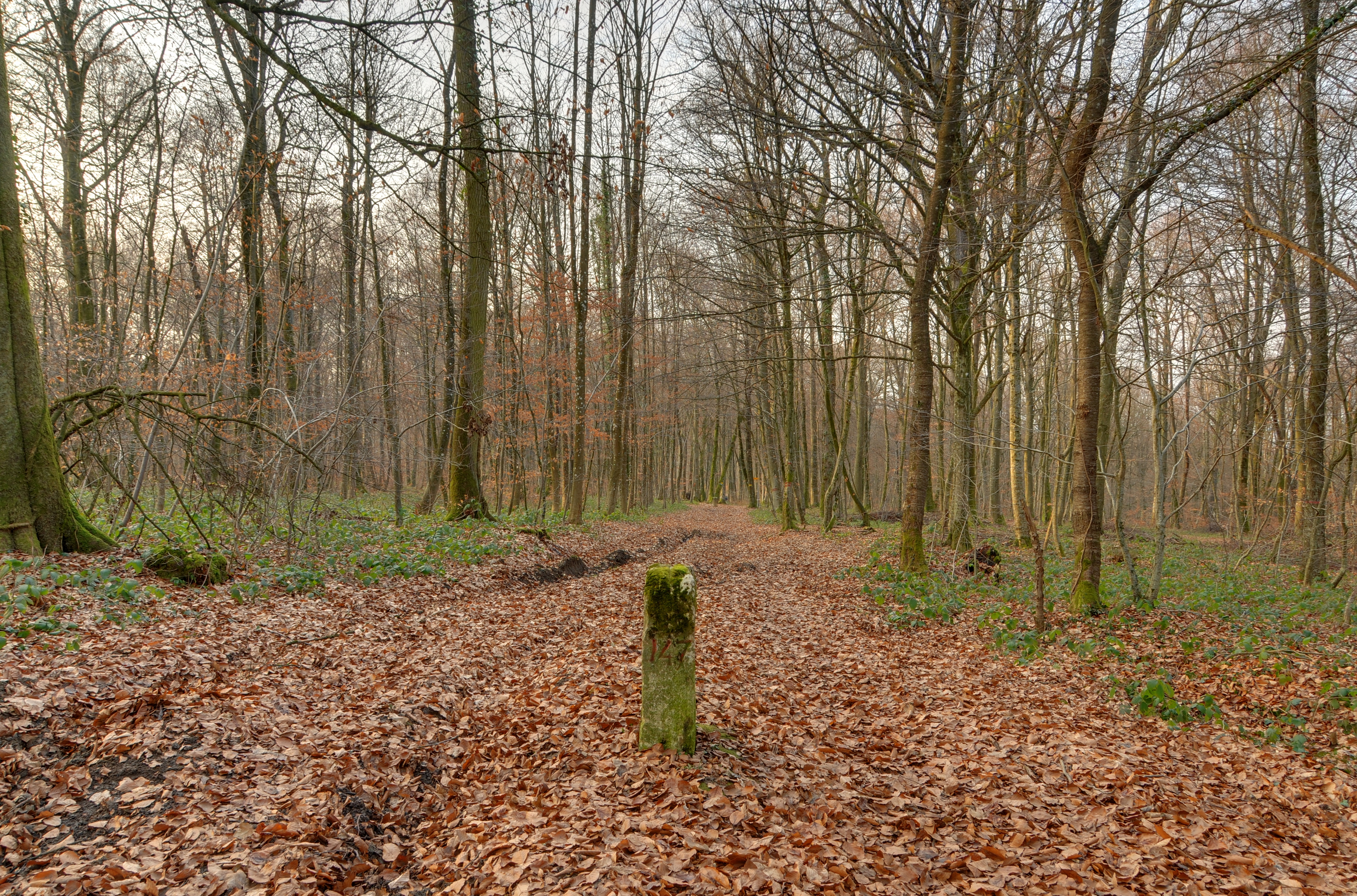 The Swiss-French border between the department of Territoire-de-Belfort, France, and the canton of Jura, Switzerland. It is visible in this picture (left Switzerland, right France) – the second boundary marker is visible in the background (HDR)